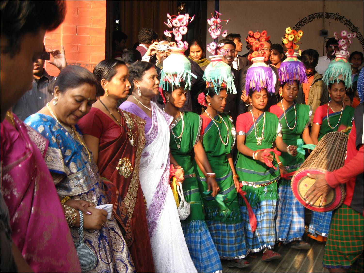 Santali Dance in a marriage ceremony